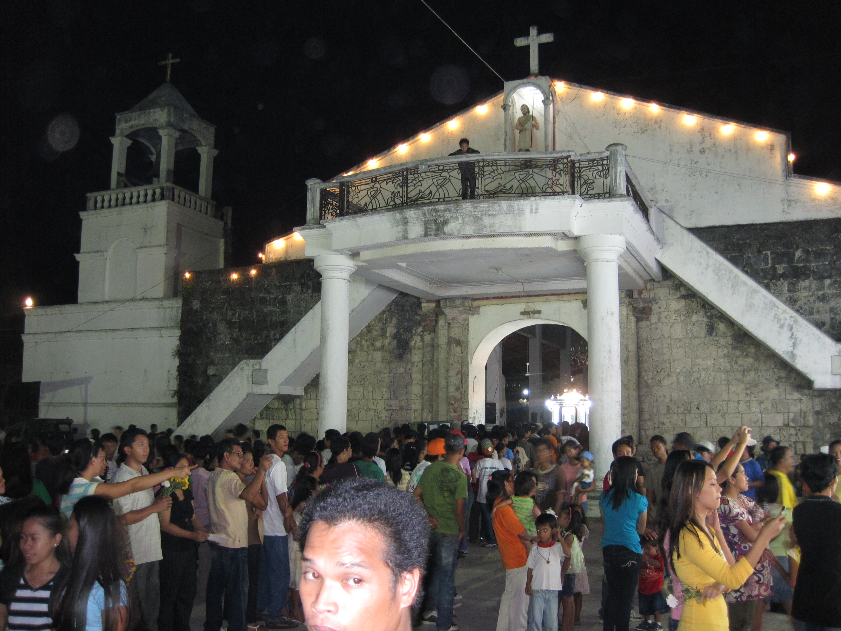 The Christian faithful in Banate waiting their turn to venerate the centuries-old Santo Intiero.